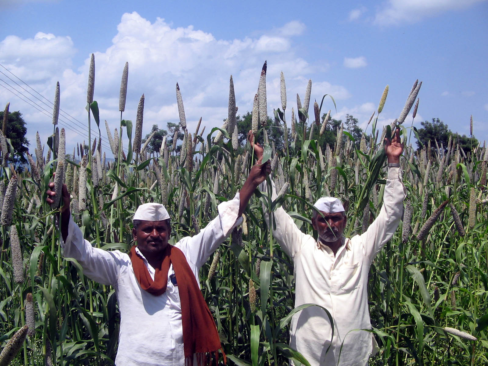 Coman Name - Pearl millet Traditional variety - Devathan Bajari Botnical Name - Pennisetum glaucum Family - Poaceae Place - Ahmednagar district, Maharashtra, India